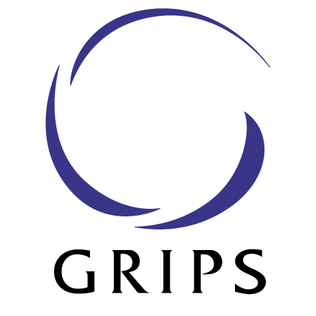 National Graduate Institute for Policy Studies